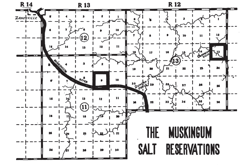 This map is of land tracts in Ohio associated with the Salt Reservations of the Ohio Lands.